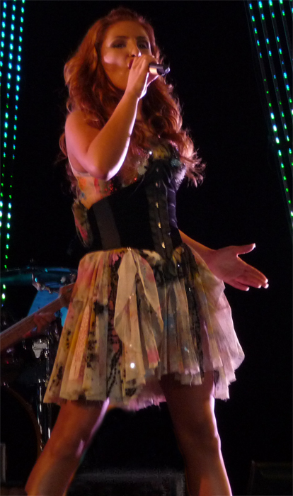 Elena Paparizou live at Kalamata Metropolitan Stadium